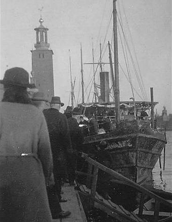 The S/S Per Brahe in Stockholm after the salvage in 1922. To finance the salvage operation of the ship, it was sent on a macabre 'tour' throughout Sweden. This picture was taken by one of the spectators.